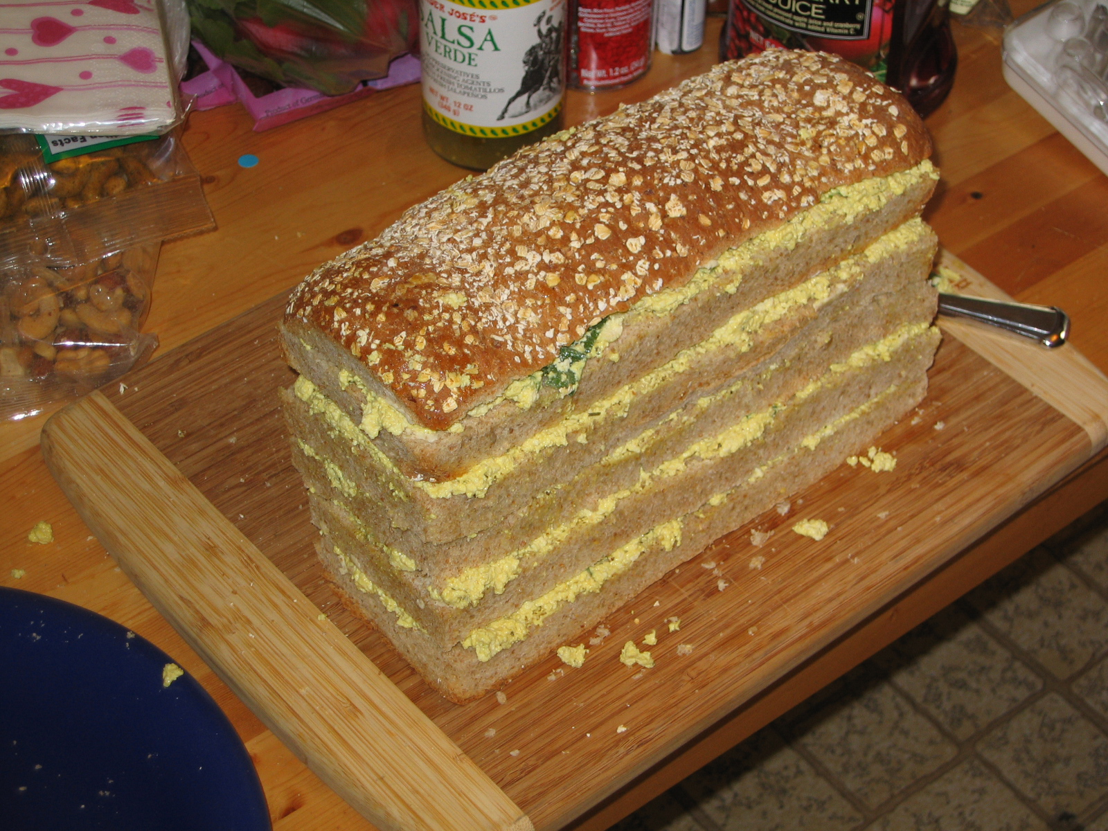 A vegan sandwich loaf that I, Travis Nygard, created February 11, 2007. It was made with mock egg salad on oatmeal bread, and covered in soy cream cheese dyed pink for Valentine’s day.